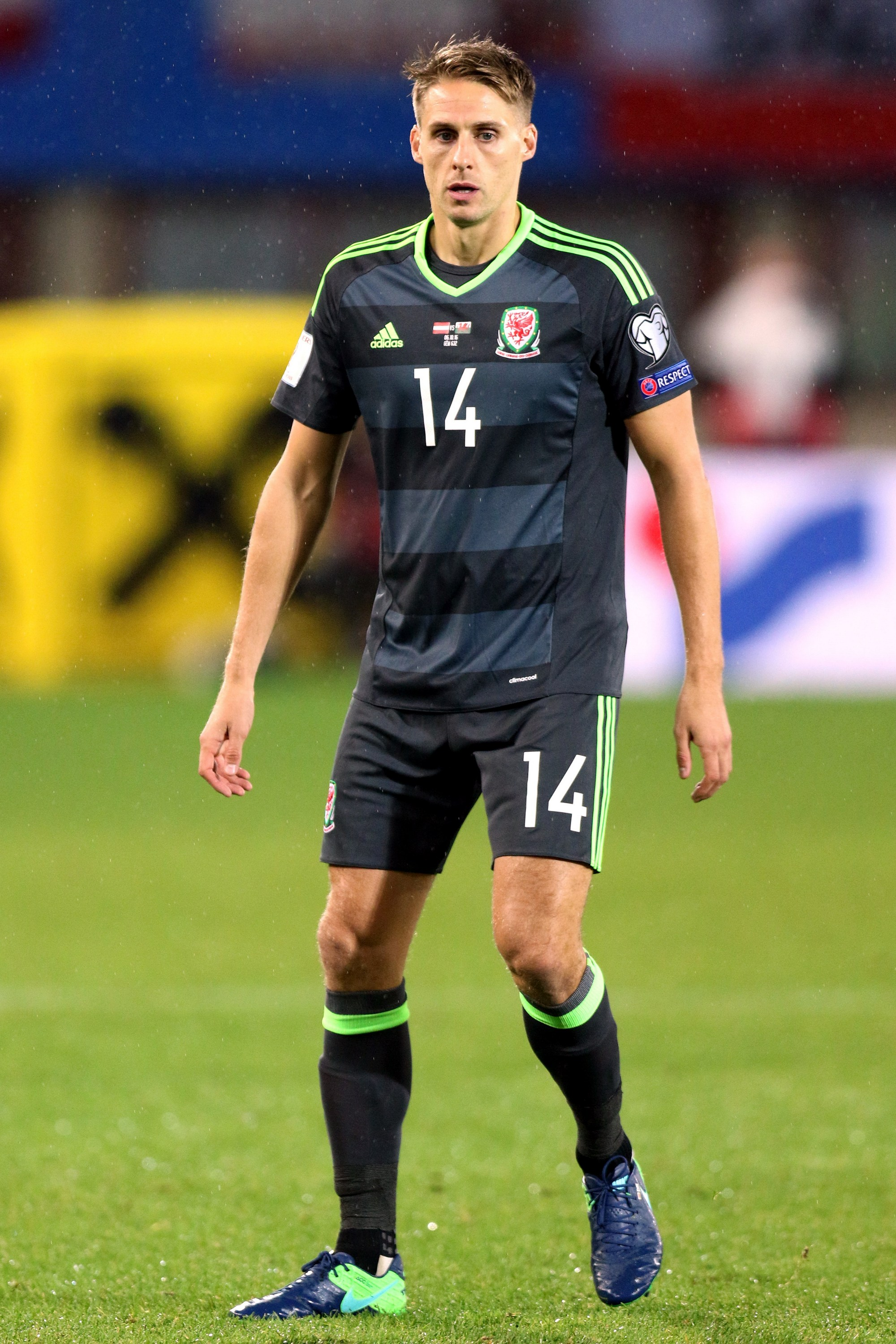 2018 FIFA World Cup qualification – UEFA Group D) – Austria (red shirts) vs. Wales (white shirts) 2-2 (1-2) – 2016-10-06 in Vienna, Ernst-Happel-Stadion – The photo shows David Edwards.